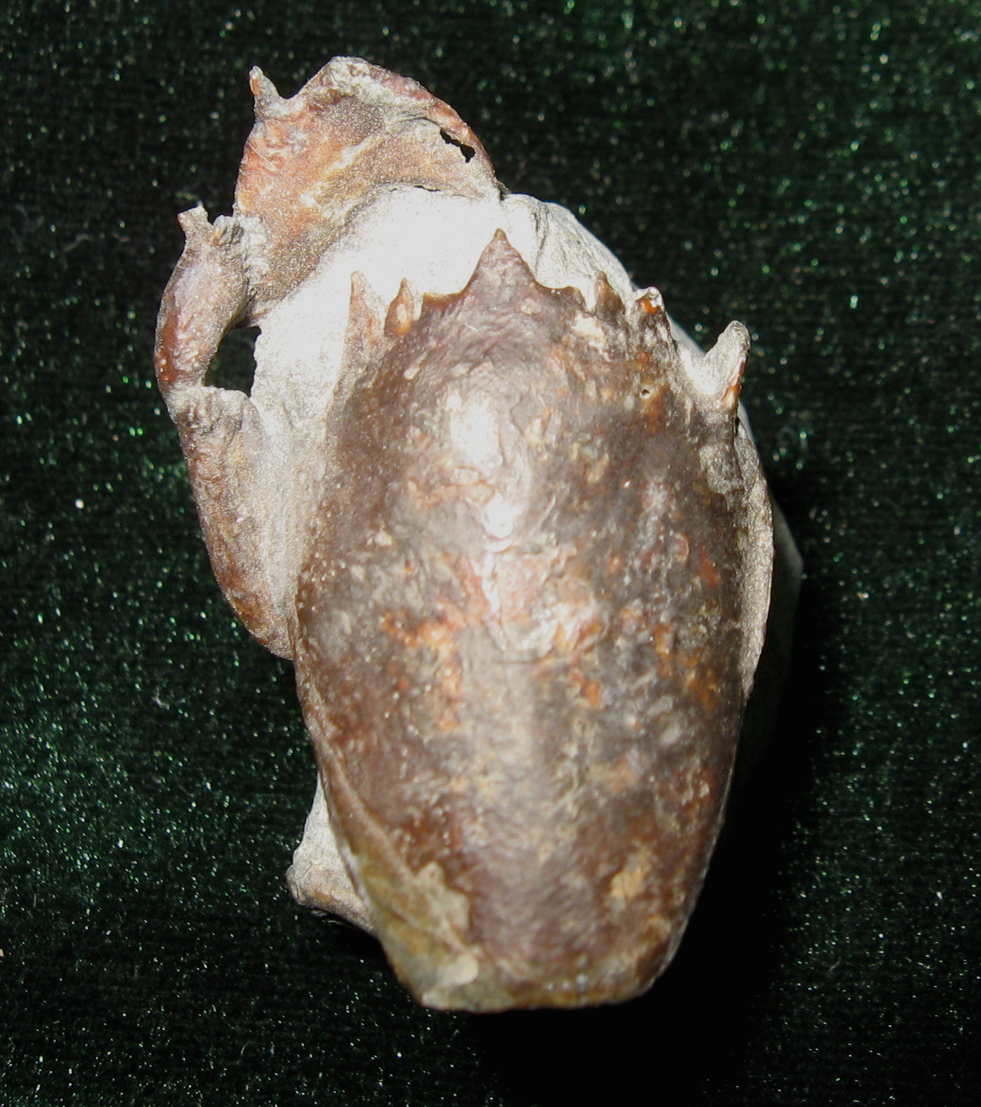 A fossil Raninoides species (cf R. fulgidus) with a ~2.5cm long carapace, in surf worn cobble from the Eocene Hoko River Formation, Clallam County, Washington, USA. Stonerose Interpretive Center, Gary Eichhorn Crab Collection #SR EC ??-??-??.